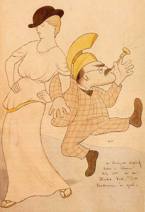 Max Beerbohm - Kipling and Britannia, 1904; Mr. Rudyard Kipling takes a blooming' day aht, on the Blasted 'Eath, along with Britannia, 'is girl